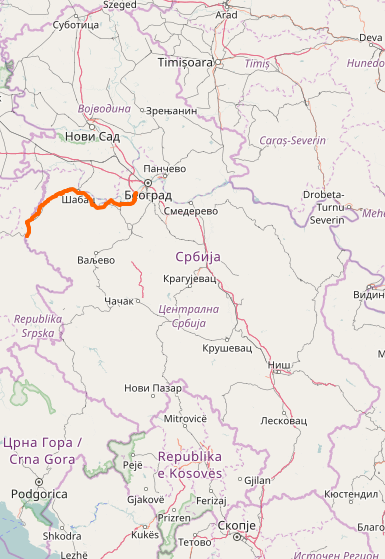 OpenStreetMap of State Road 26 in Serbia.